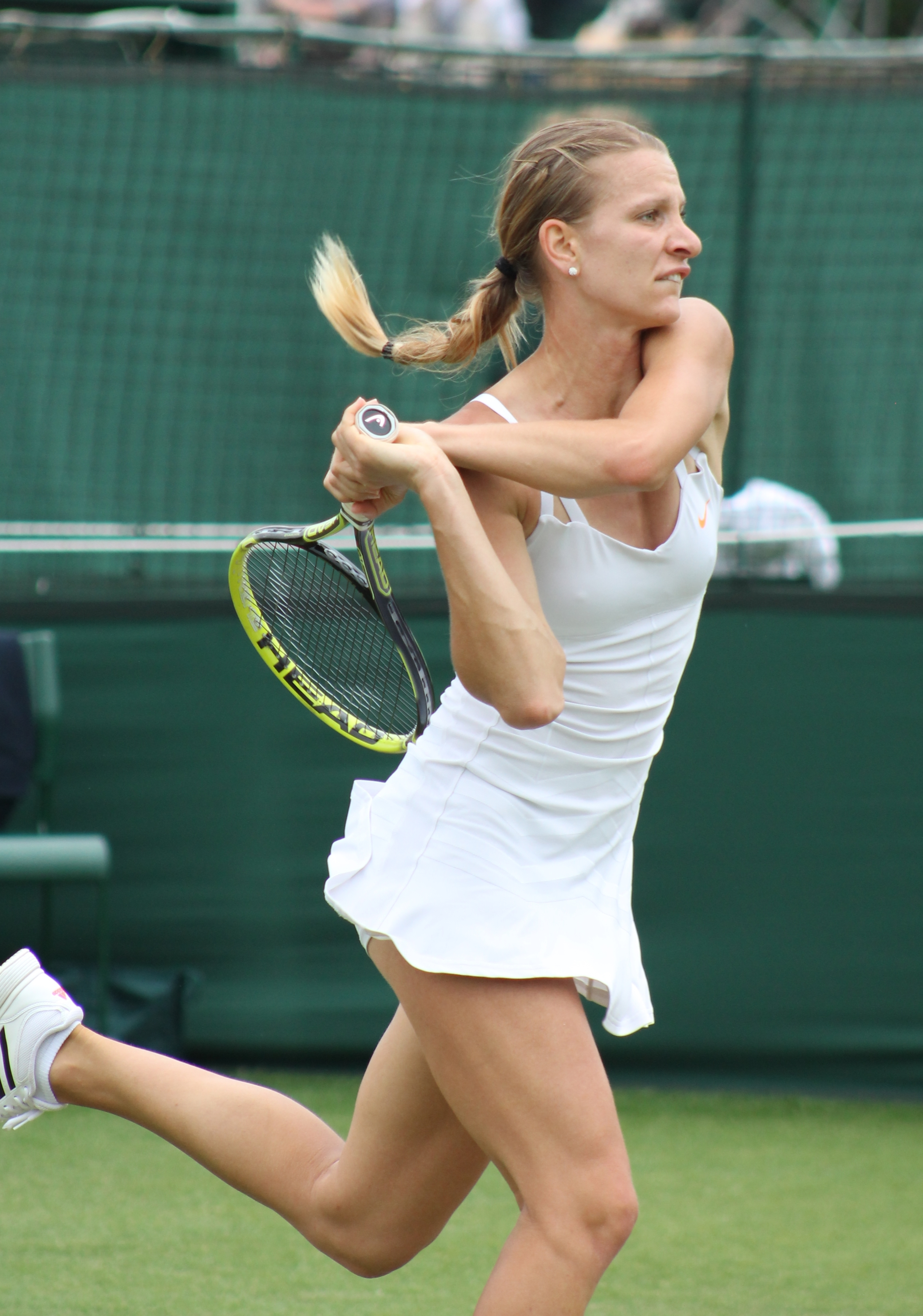 Sesil Karatantcheva, 2013 Wimbledon Qualifying Tournament